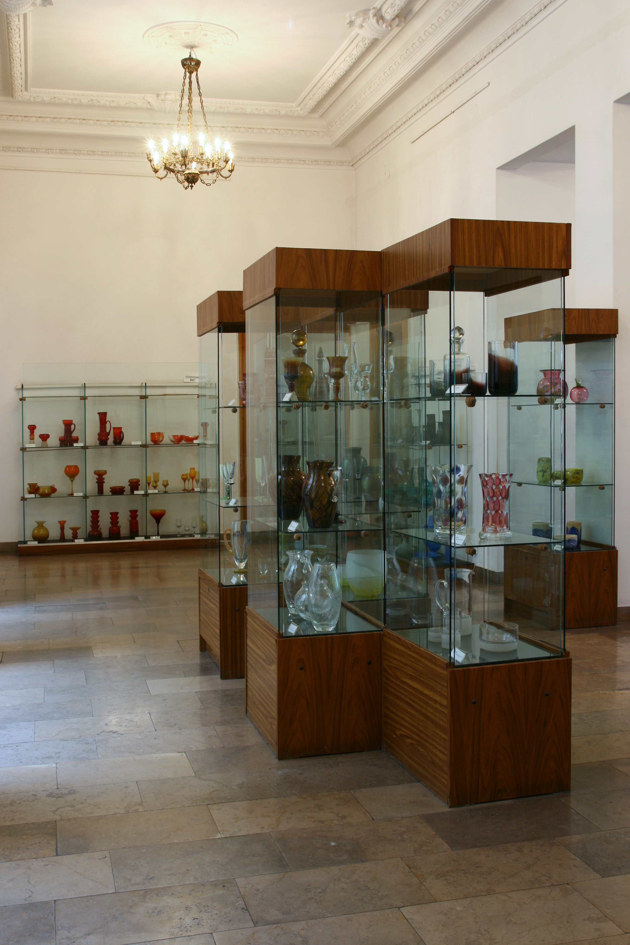 Exposition in Schöen Palace in Sosnowiec (Poland).